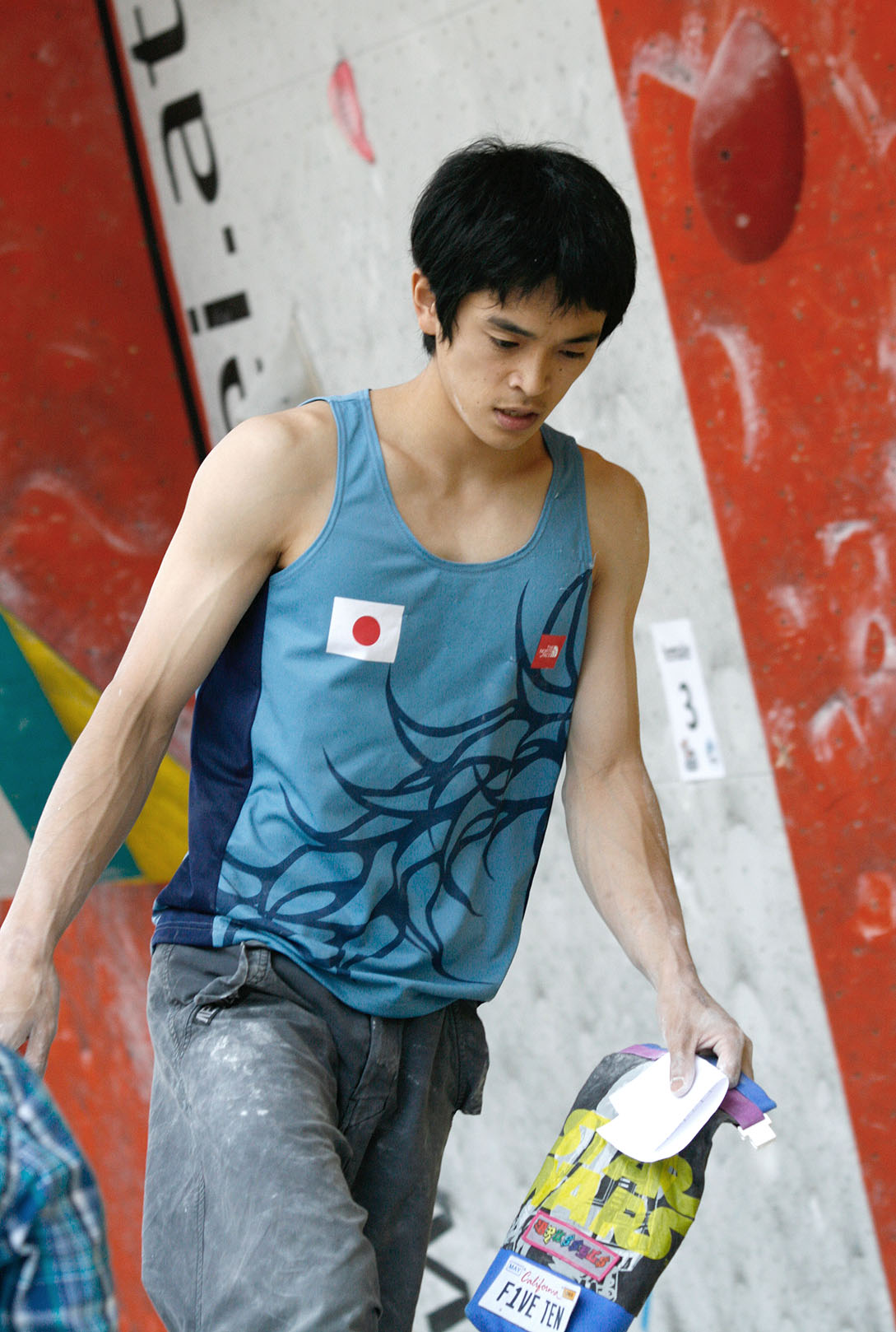 Tsukuru Hori during the semi-finals at the IFSC Boulder Worldcup Vienna 2010.